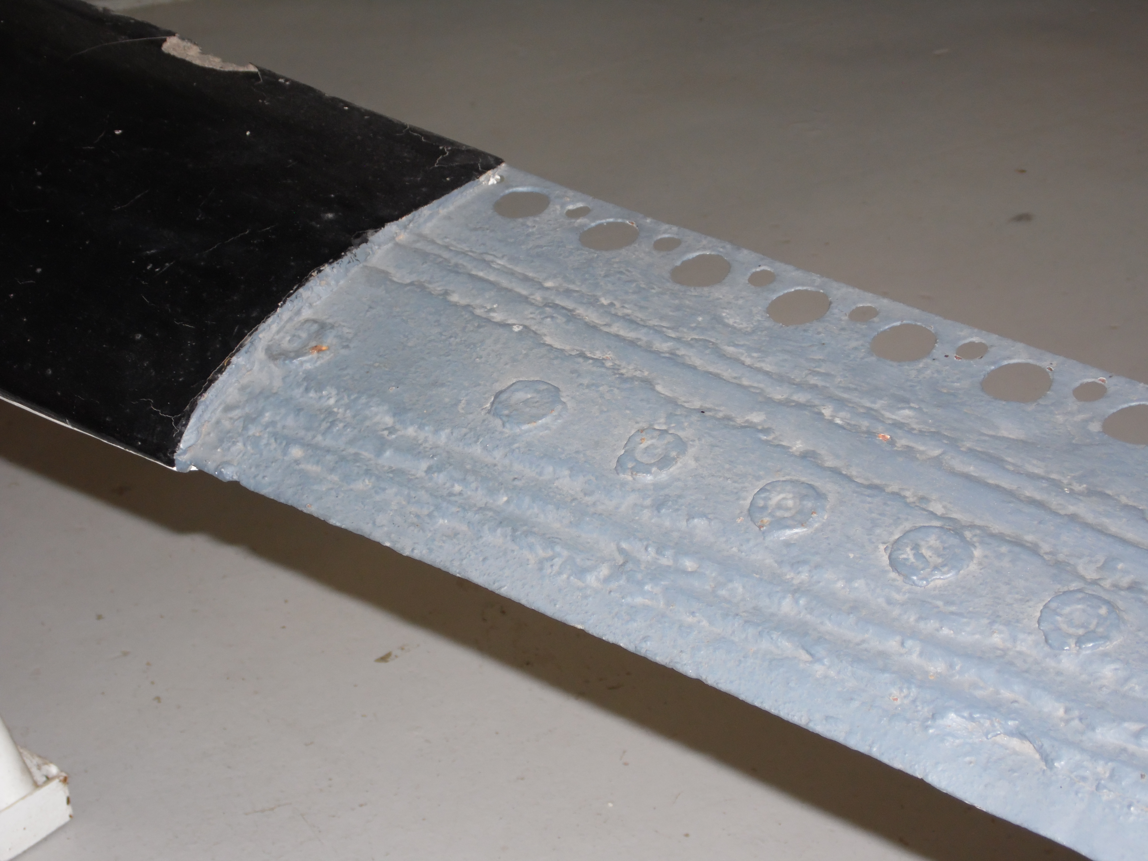 Cut away section of BV246 missile wing showing concrete coated steel construction. Taken at Cosford Museum 2018-04-15